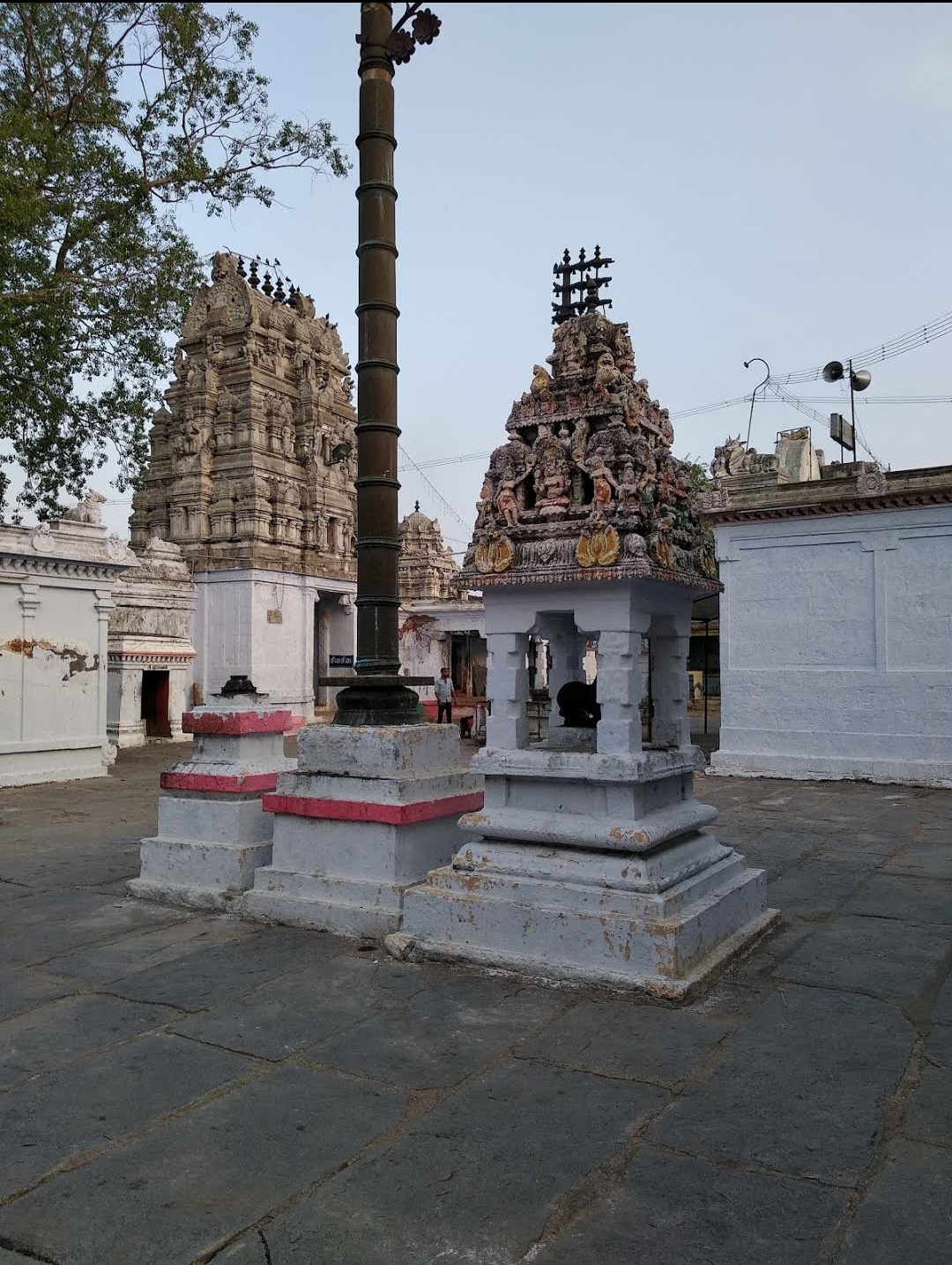 ஆரணி புத்திரகாமேட்டீஸ்வரர் ஆலயம்